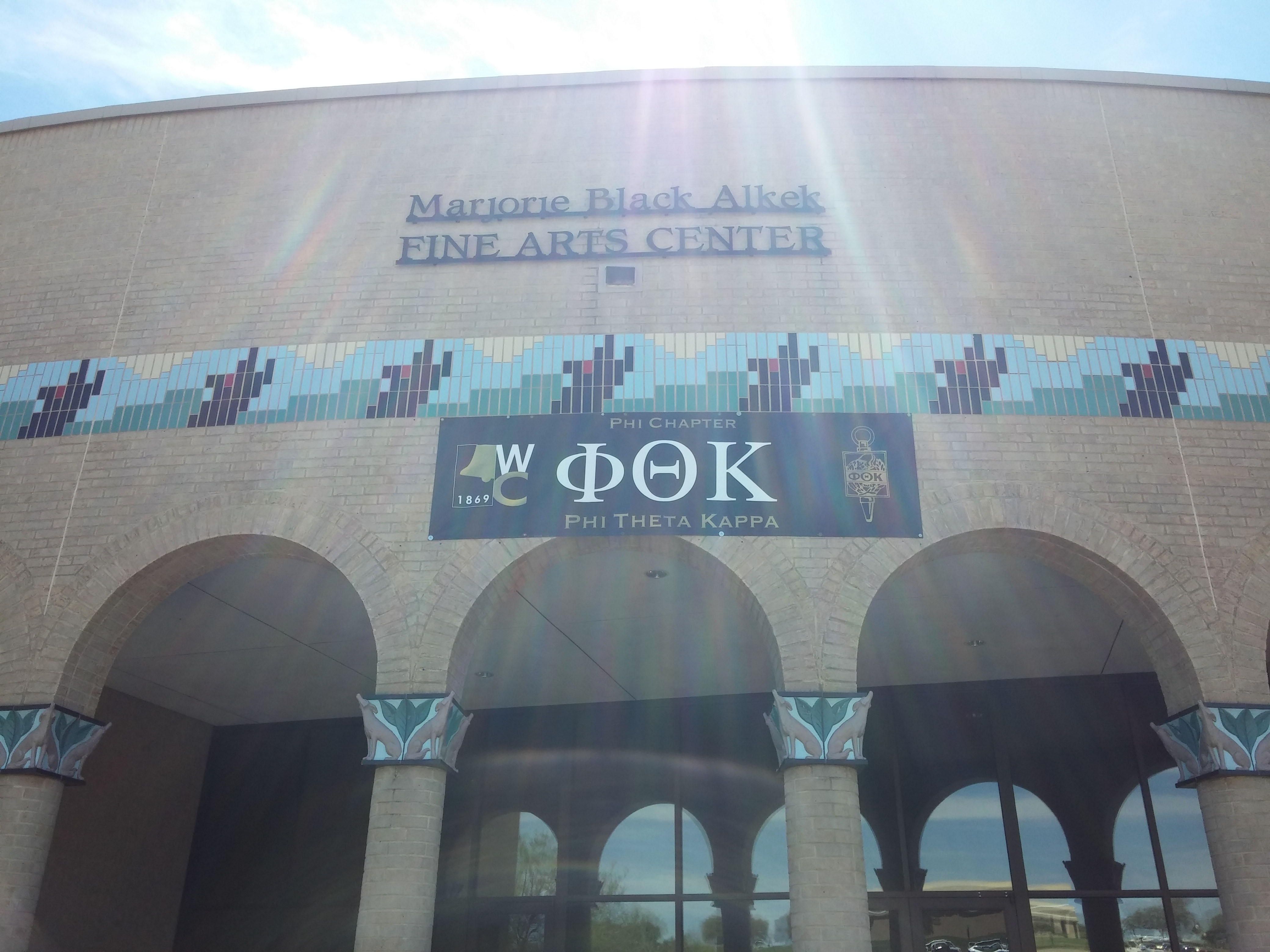 Alkek Fine Arts Center